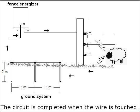 The diagram shows how a circuit is completed when the fence wire is touched. When an animal touches a live wire, the circuit is completed because the current travels through the soil to the ground rods and back to the energizer.